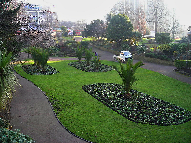 A picture of the Queens Gardens in Croydon next to Tabener House